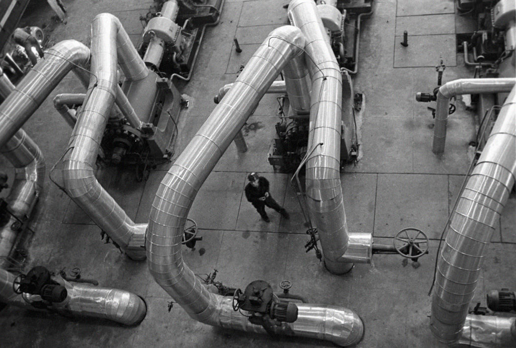 “Boiler room at Burshtynskaya state regional power station”. Boiler room of Burshtynskaya state regional power plant named after fiftieth anniversary of GOELRO electrification plan.